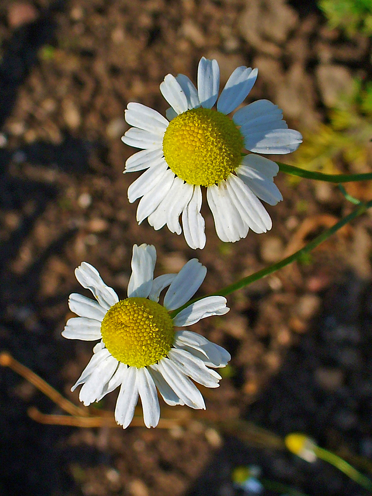 Matricaria recutita, Asteraceae, German Chamomile, inflorescences; Botanical Garden KIT, Karlsruhe, Germany.